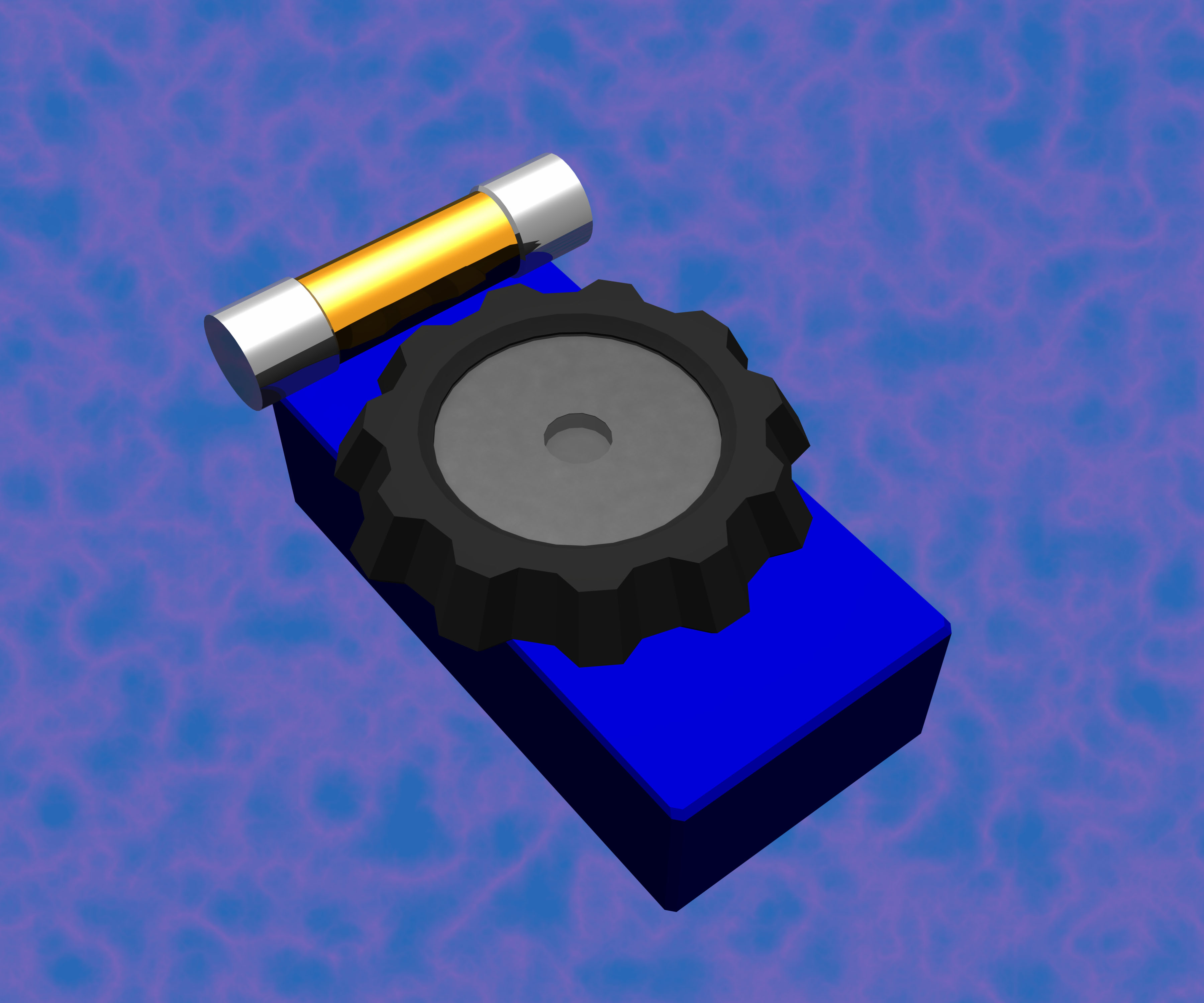 A ray-traced rendering of the original version of Glitch, Guardian Bob's keytool